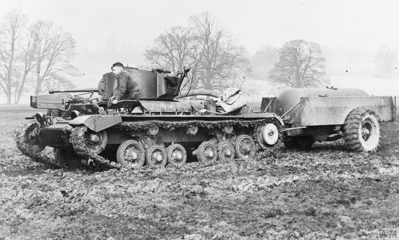 TANKS AND ARMOURED FIGHTING VEHICLES OF THE BRITISH ARMY 1939-45: Valentine flamethrower (gas-operated equipment).